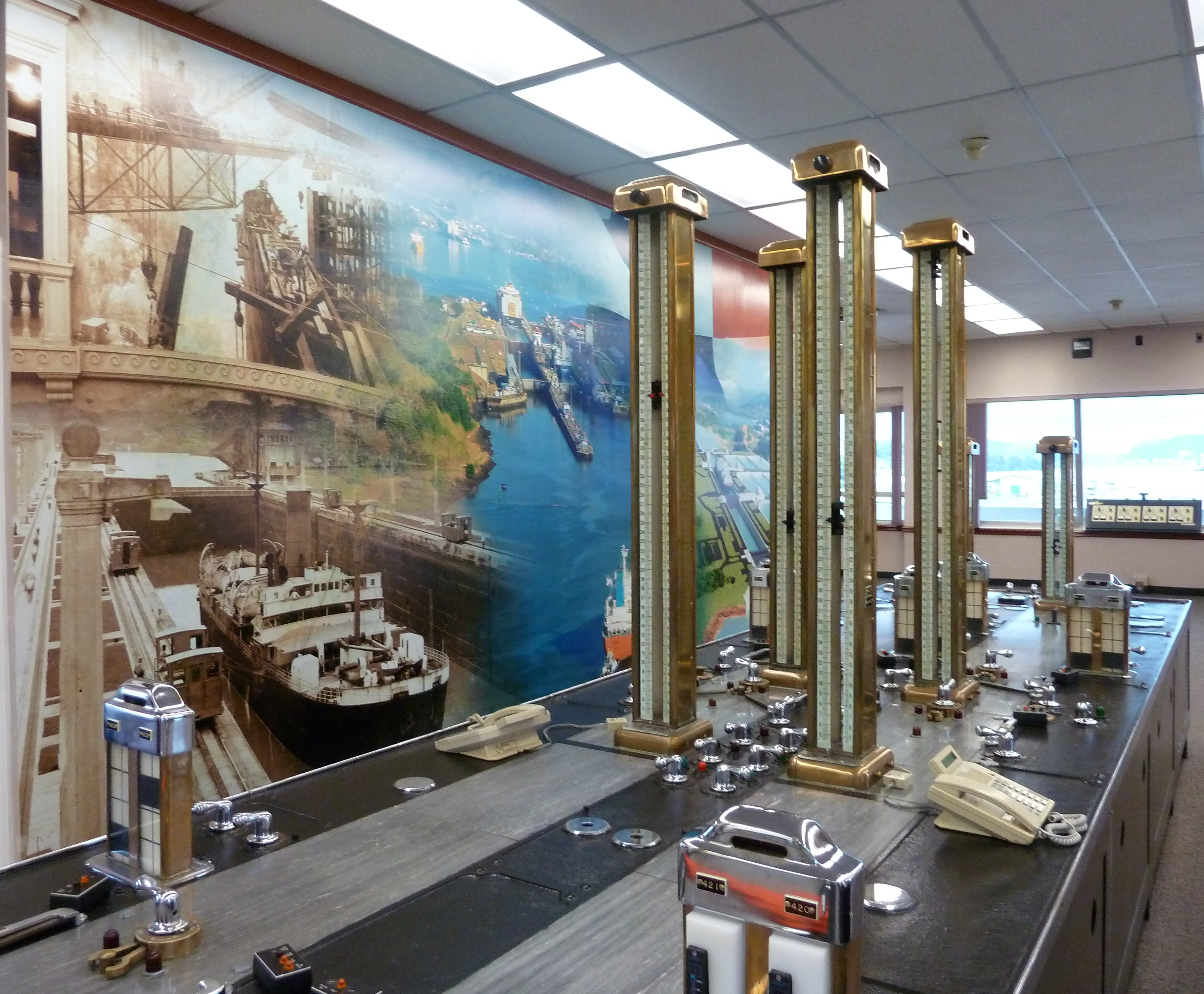 Miraflores Lock Panama Canal